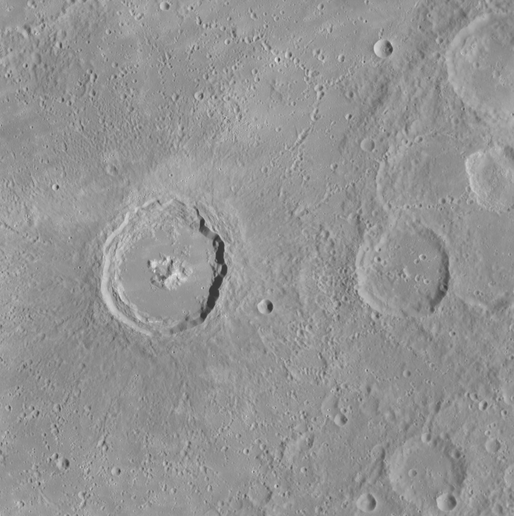 Damer crater (left) on Mercury. MESSENGER Wide Angle Camera image. North is at upper left. Width is approximately 209 km. Emission Angle: 0.3 Incidence Angle: 61.2 Latitude: 36.1 Longitude: 245.4 Phase Angle: 61.1